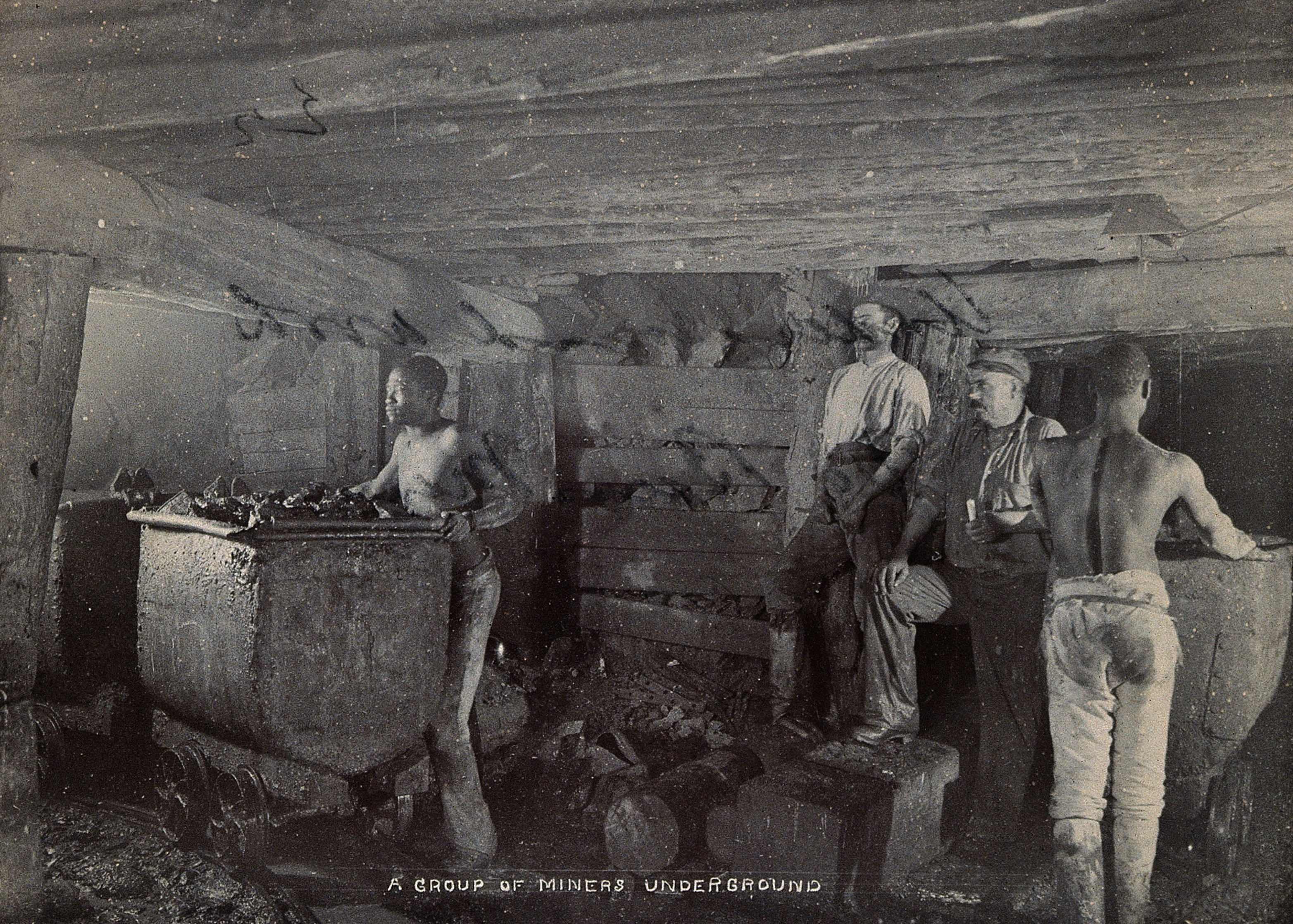 South Africa: a group of miners working underground at De Beers diamond mine. Photograph by J.E.M., 1896. Iconographic Collections Keywords: J.E. M